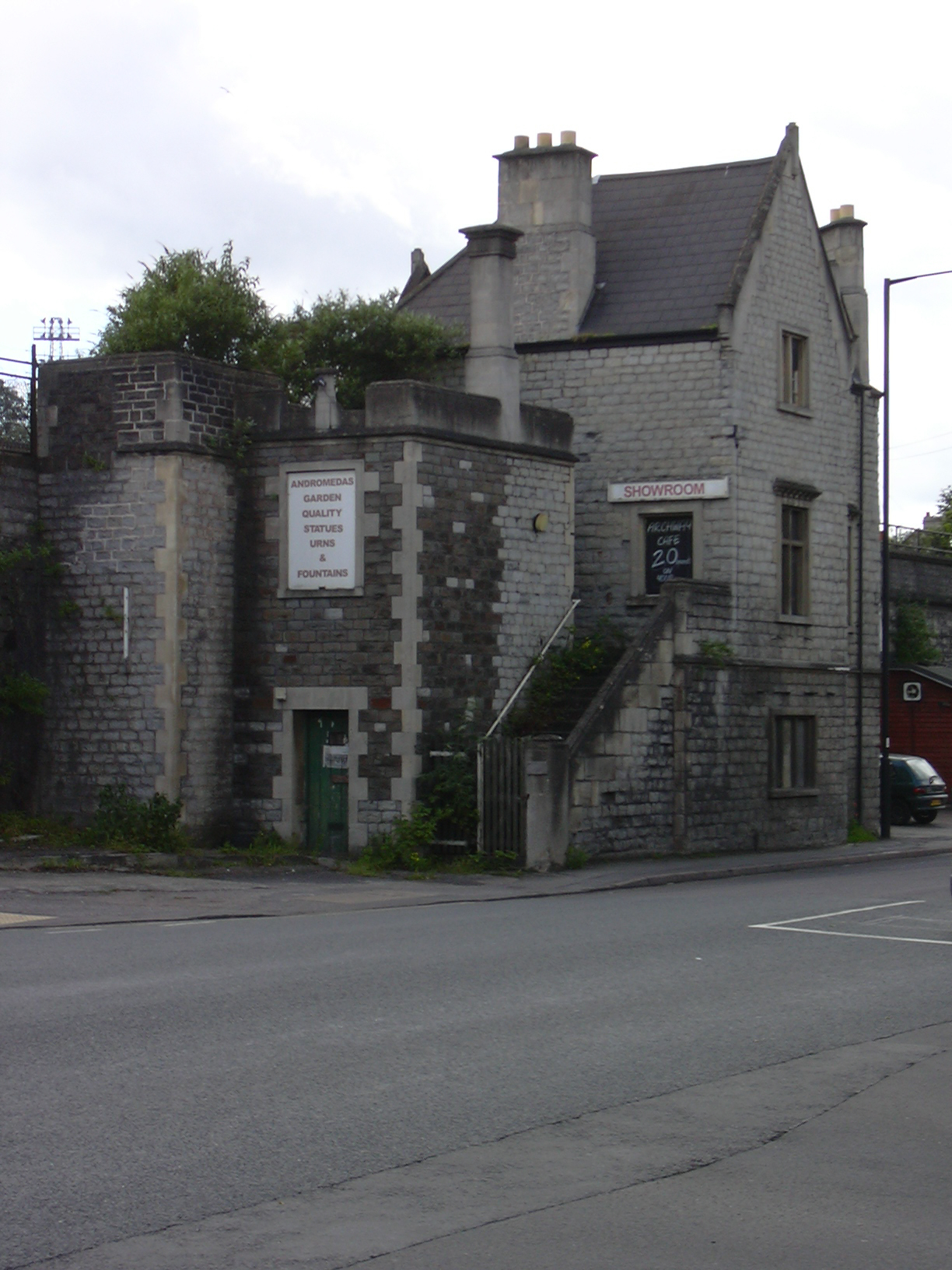 A view of a small commuter station on Brunel's viaduct leading west of Bath towards Bristol. This disused station is in a Gothic style but at present boarded up and abandonned. Small trees appear to be growing at platform level.